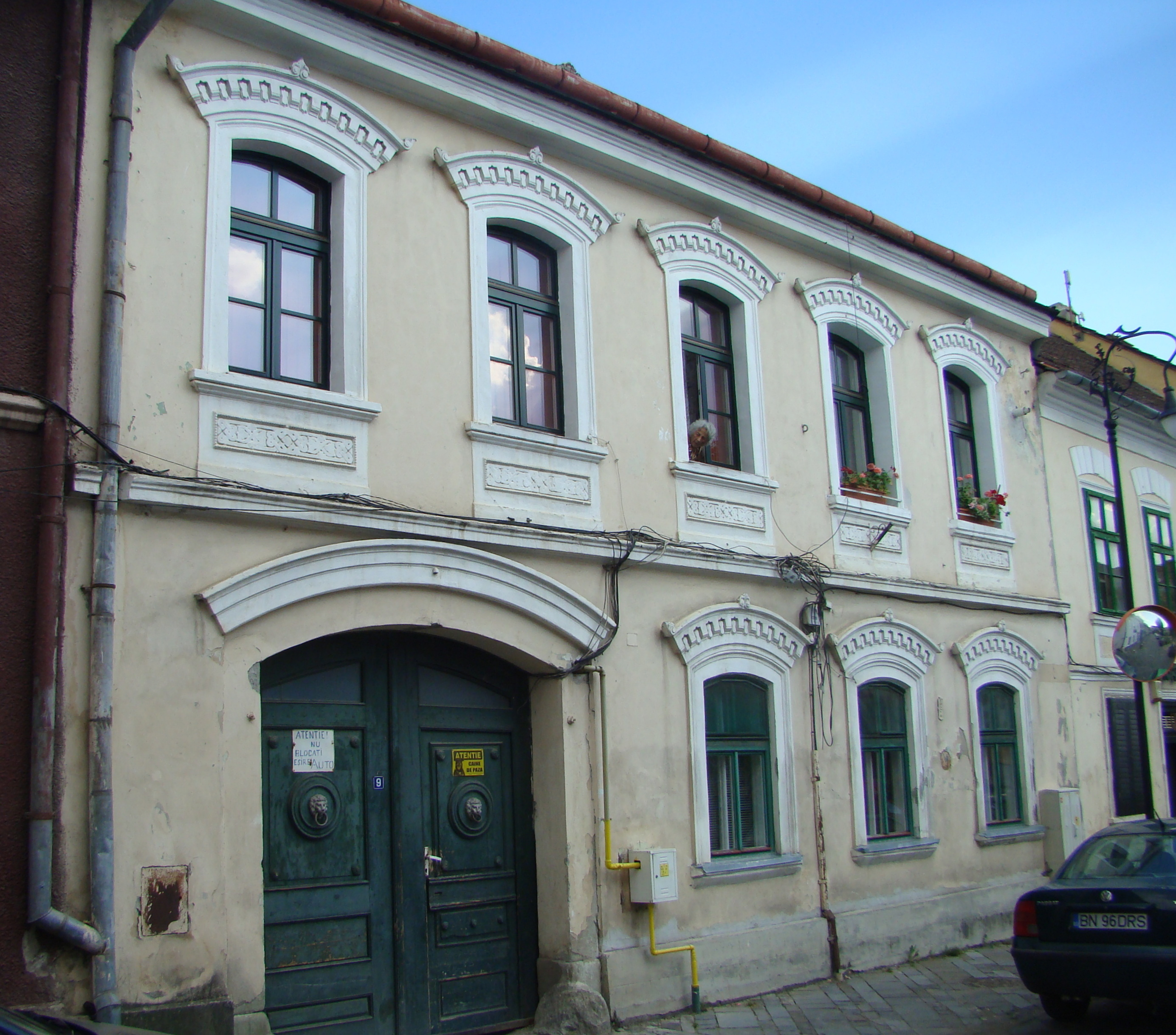 House, historic monument, in Bistrița, Piața Mică 9